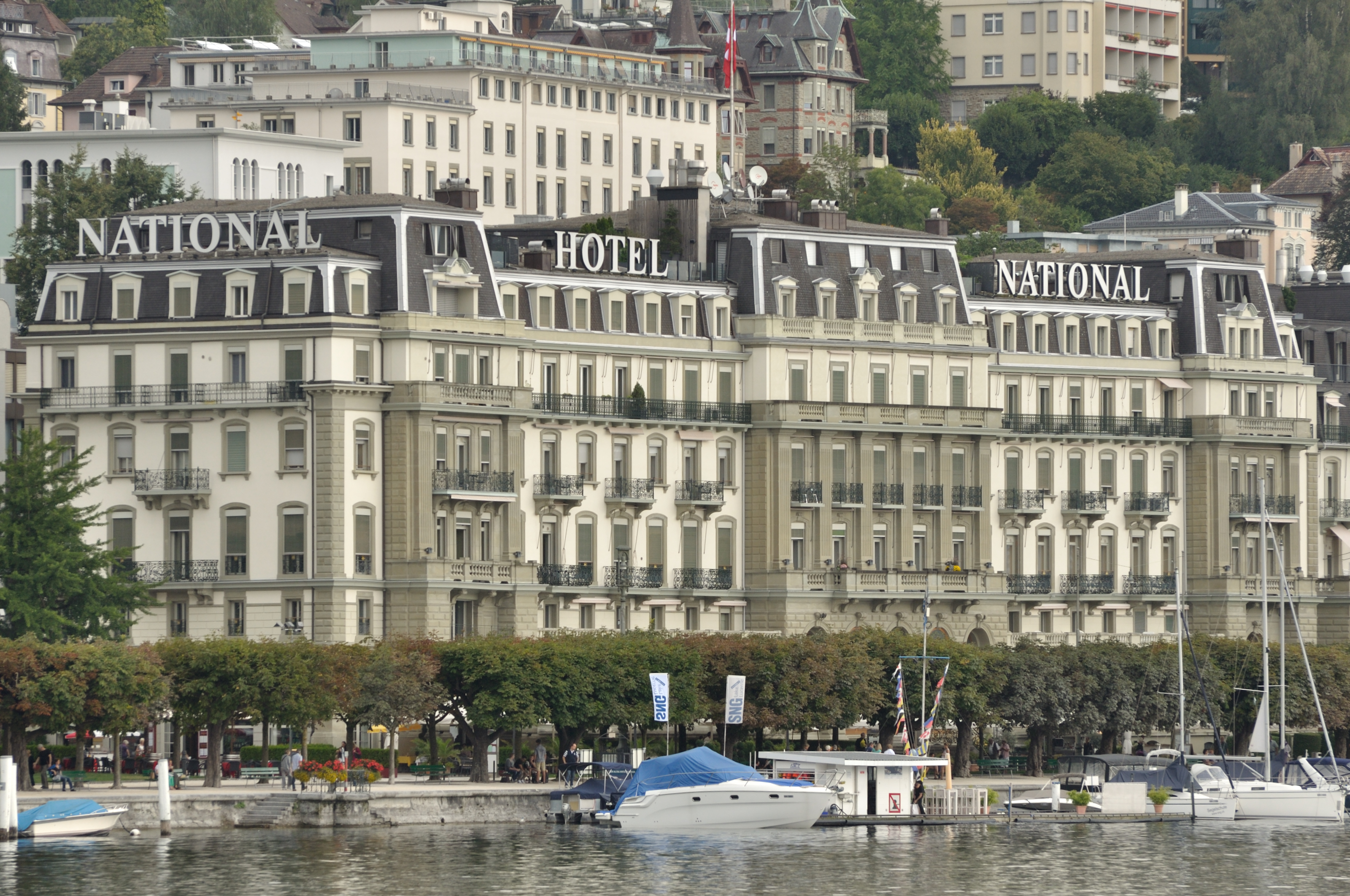 Switzerland, Canton of Lucerne, views in Lucerne.